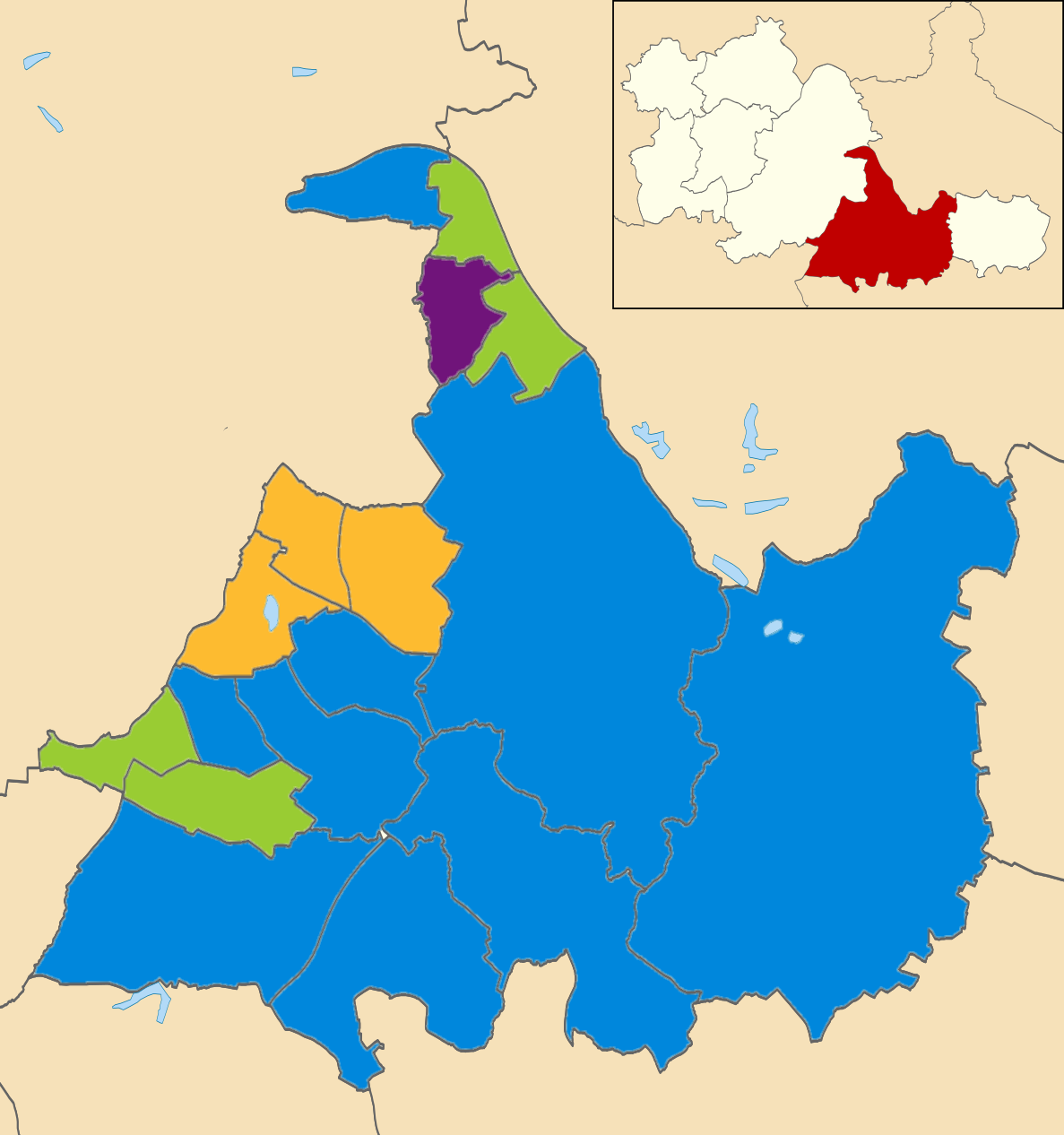 Results of the 2014 local elections in Solihull Colours: Conservative Liberal Democrat Green Party UKIP